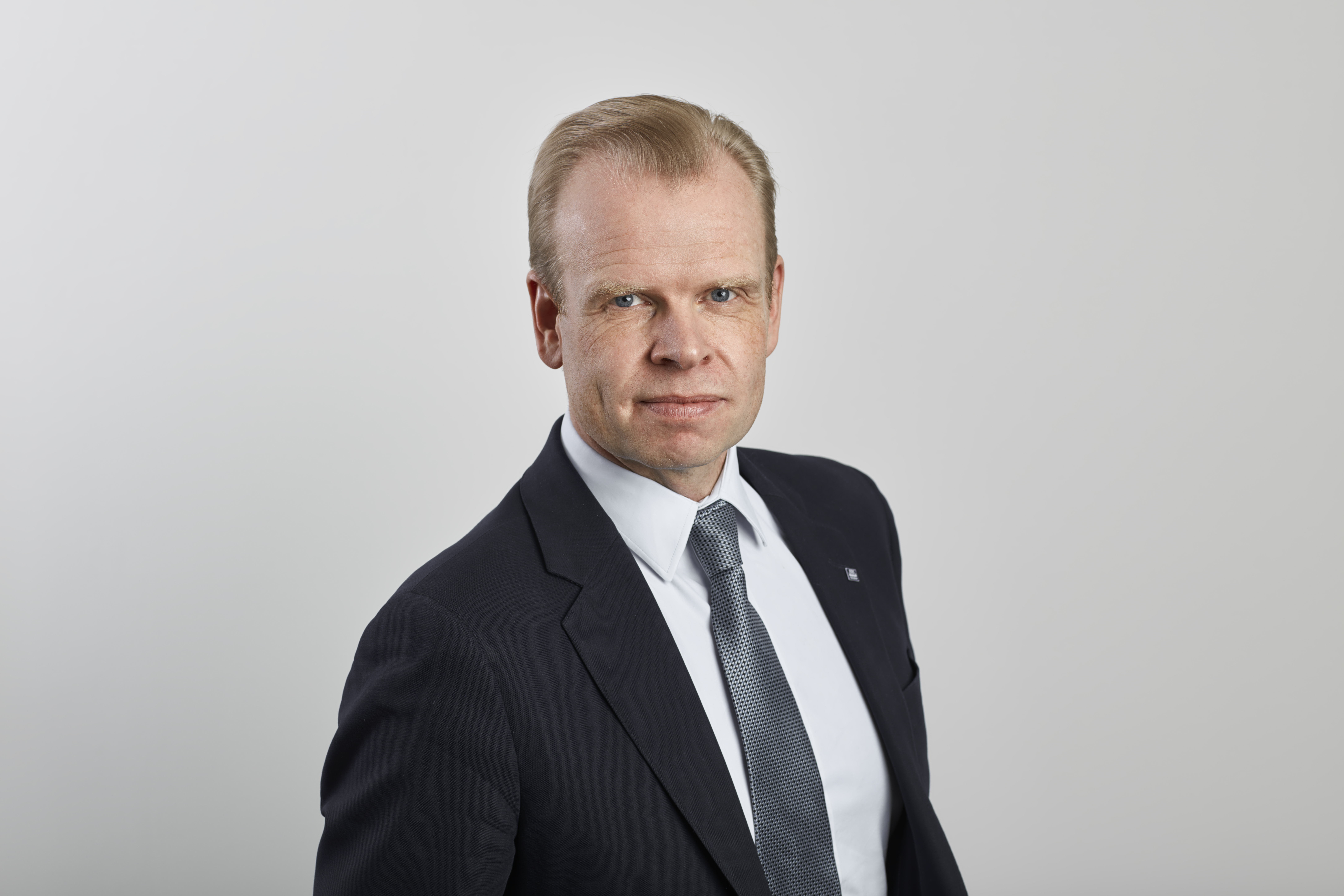 Photo credit: Yara International ASA